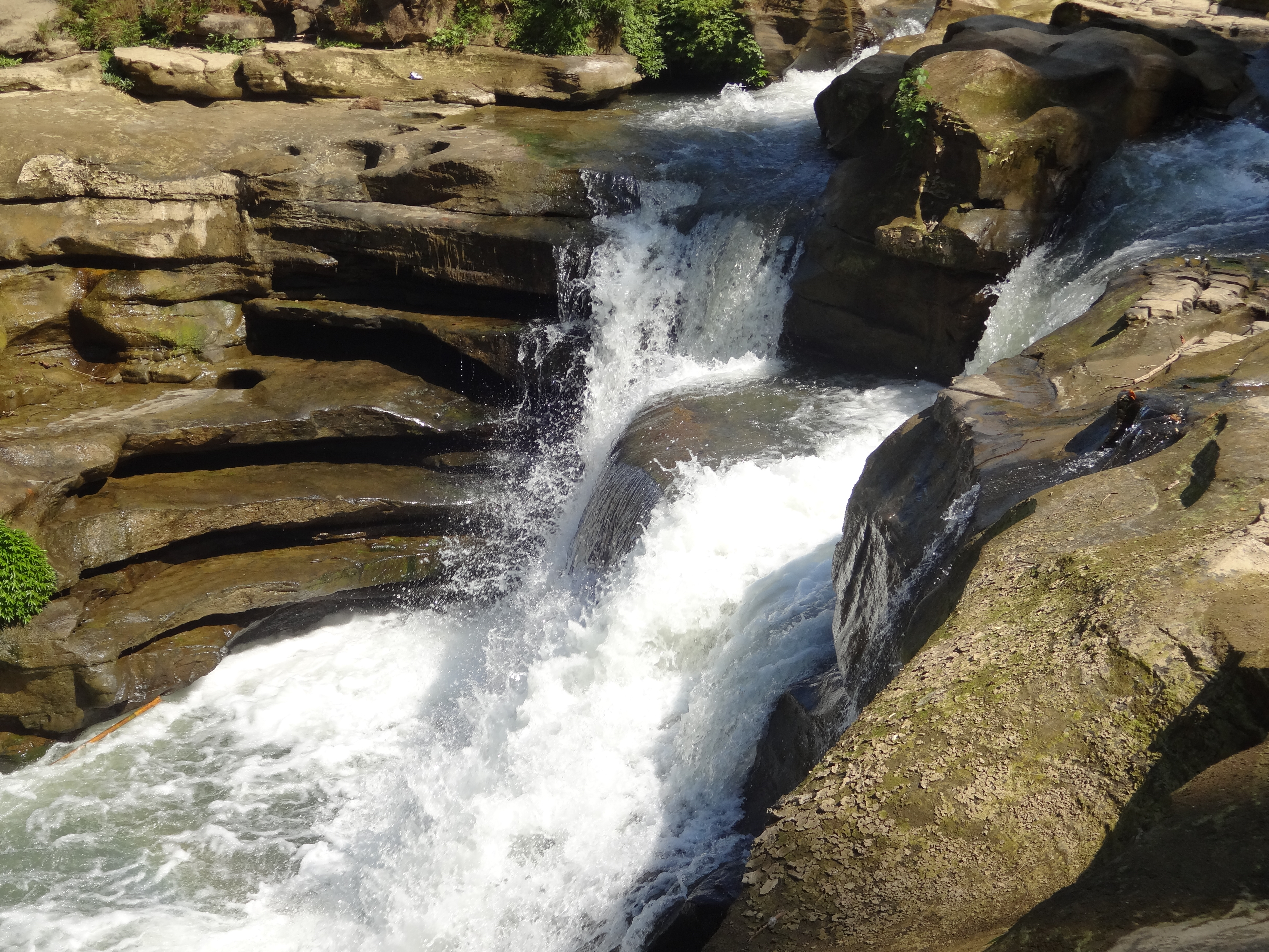 Nafa-Khum water falls view at Bandarban, Bangladesh